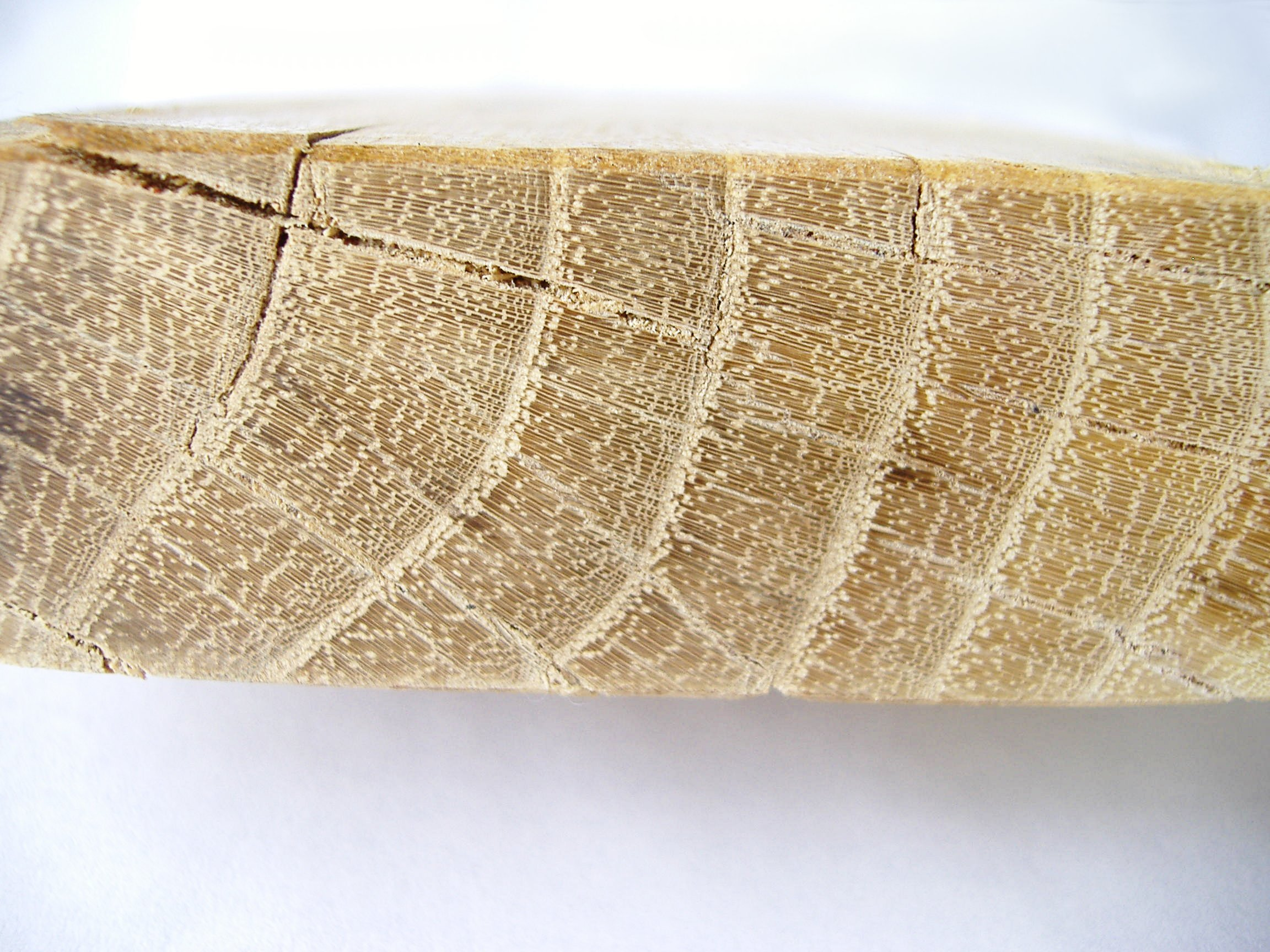 Black Locust wood, end grain, scraped, no finish.